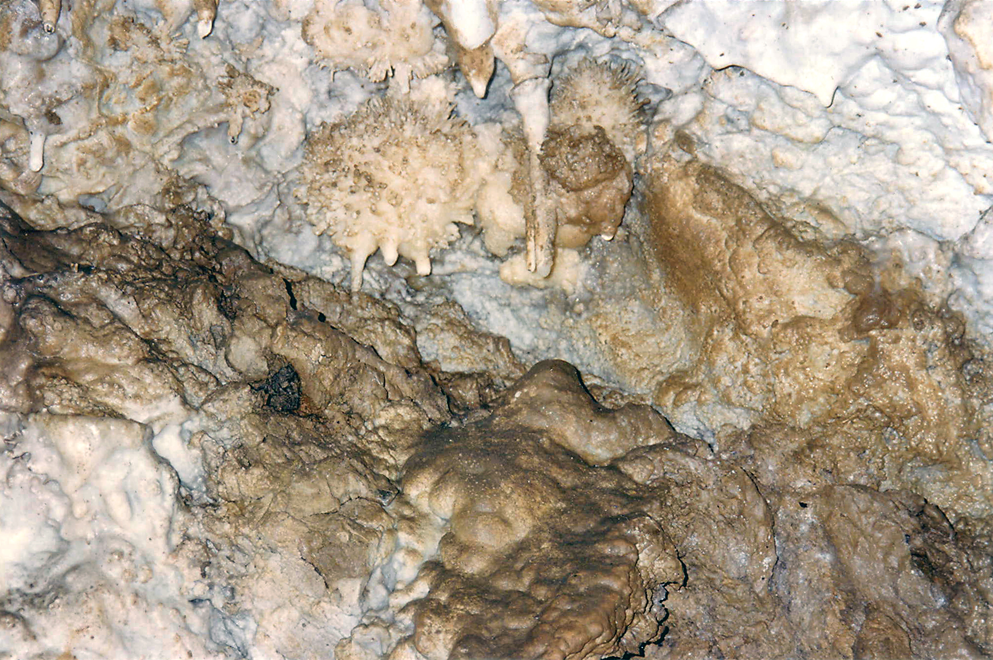 Aragonite in Rotovnik cave, Slovenia (near Šoštanj)